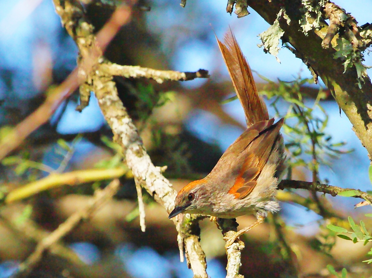 Pale-breasted Spinetail; Capivara, Santa Fe, Argentina